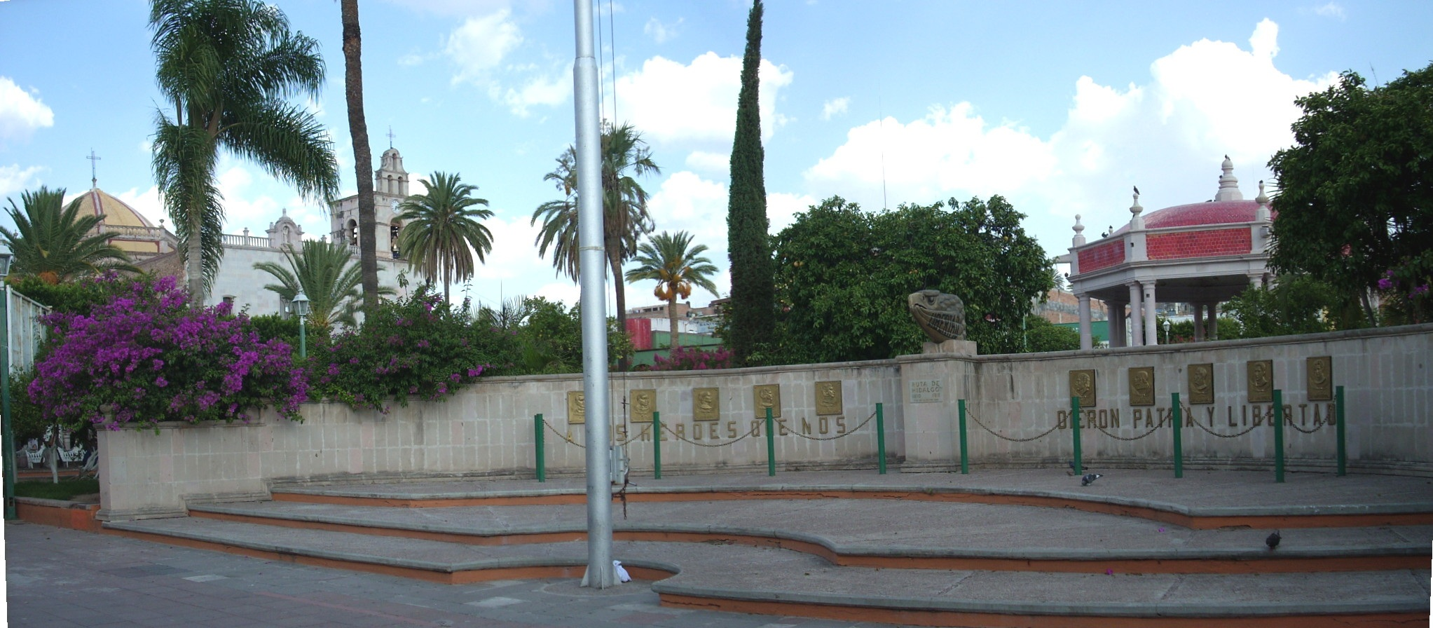 Beautiful photo